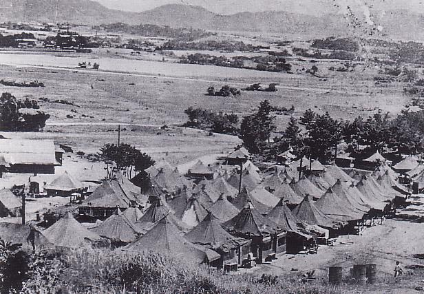 Okinawa Educational School